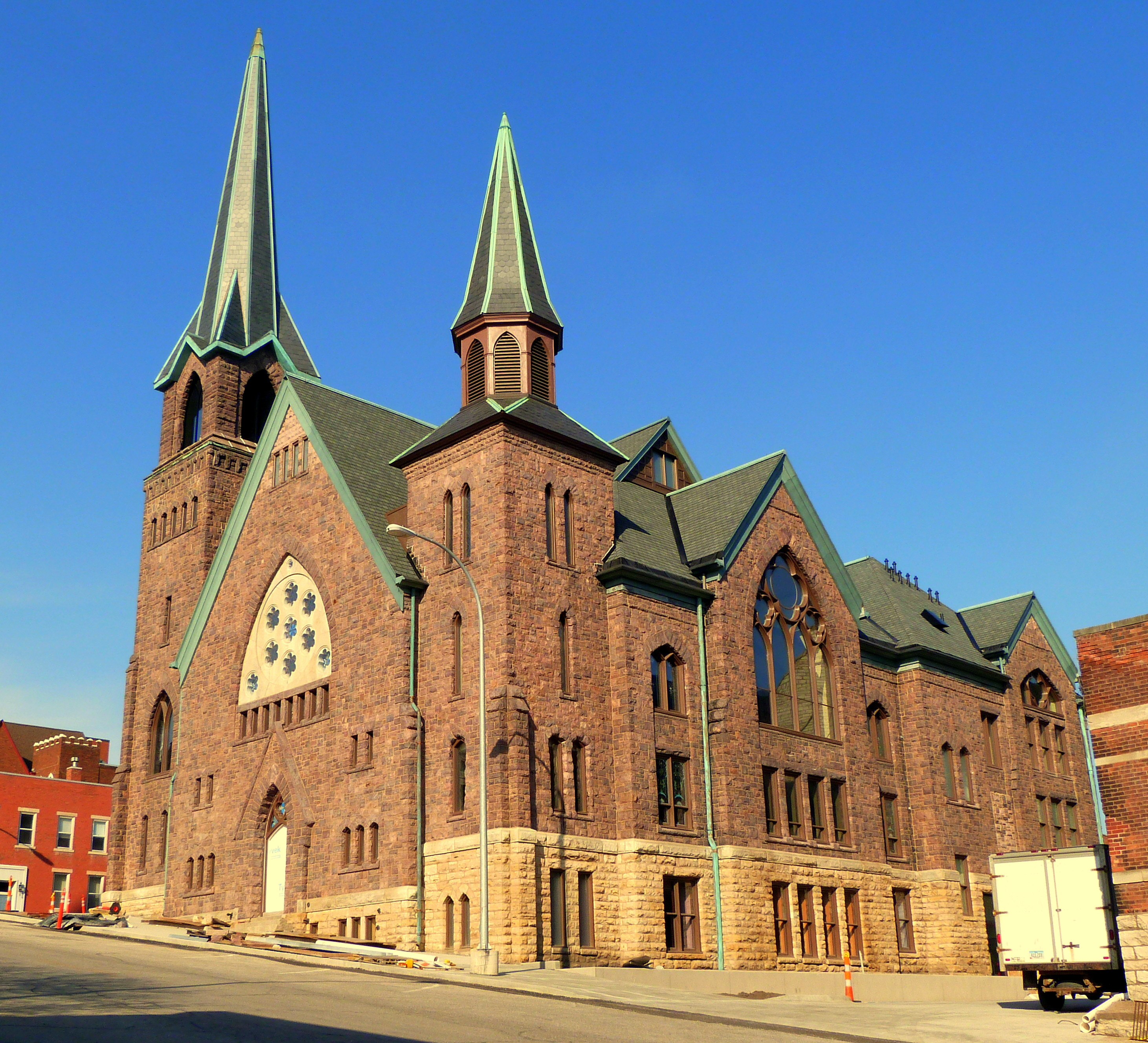 The historic First Methodist Episcopal Church (built 1889), located at 421 Washington Street in Burlington, Iowa, United States, is listed as a contributing resource in the Heritage Hill Historic District. The historic district is listed on the US National Register of Historic Places.